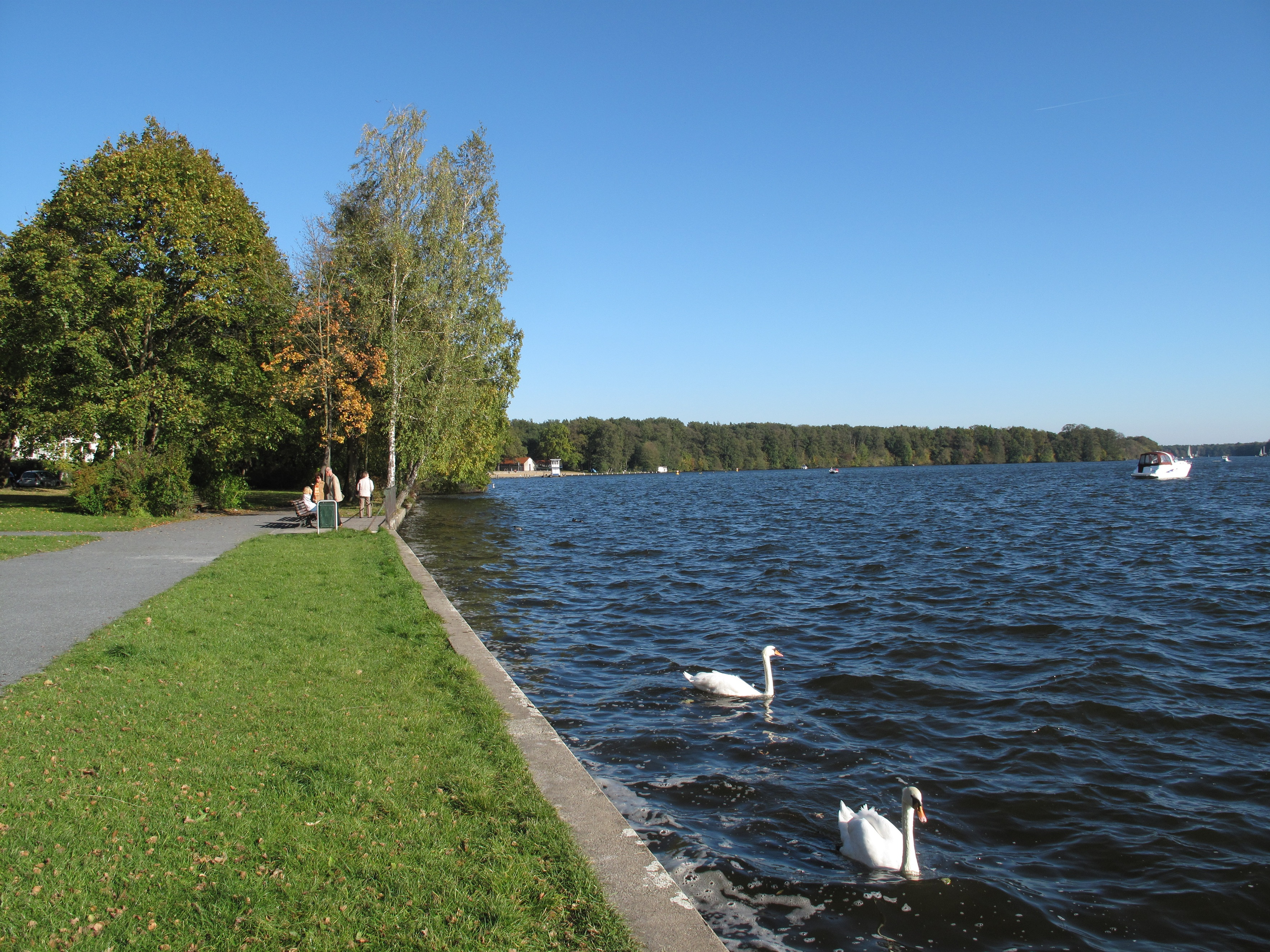 Langer See at the Möllhausenufer in the locality Wendenschloß. View to the Seebad Wendenschloss. The Langer See (german for: long lake) is situated in Berlins borough Treptow-Köpenick, Germany. The lake is aligned south-east to north-west and forms part of the course of the River Dahme. The Langer See is approximately 11 kilometres long.